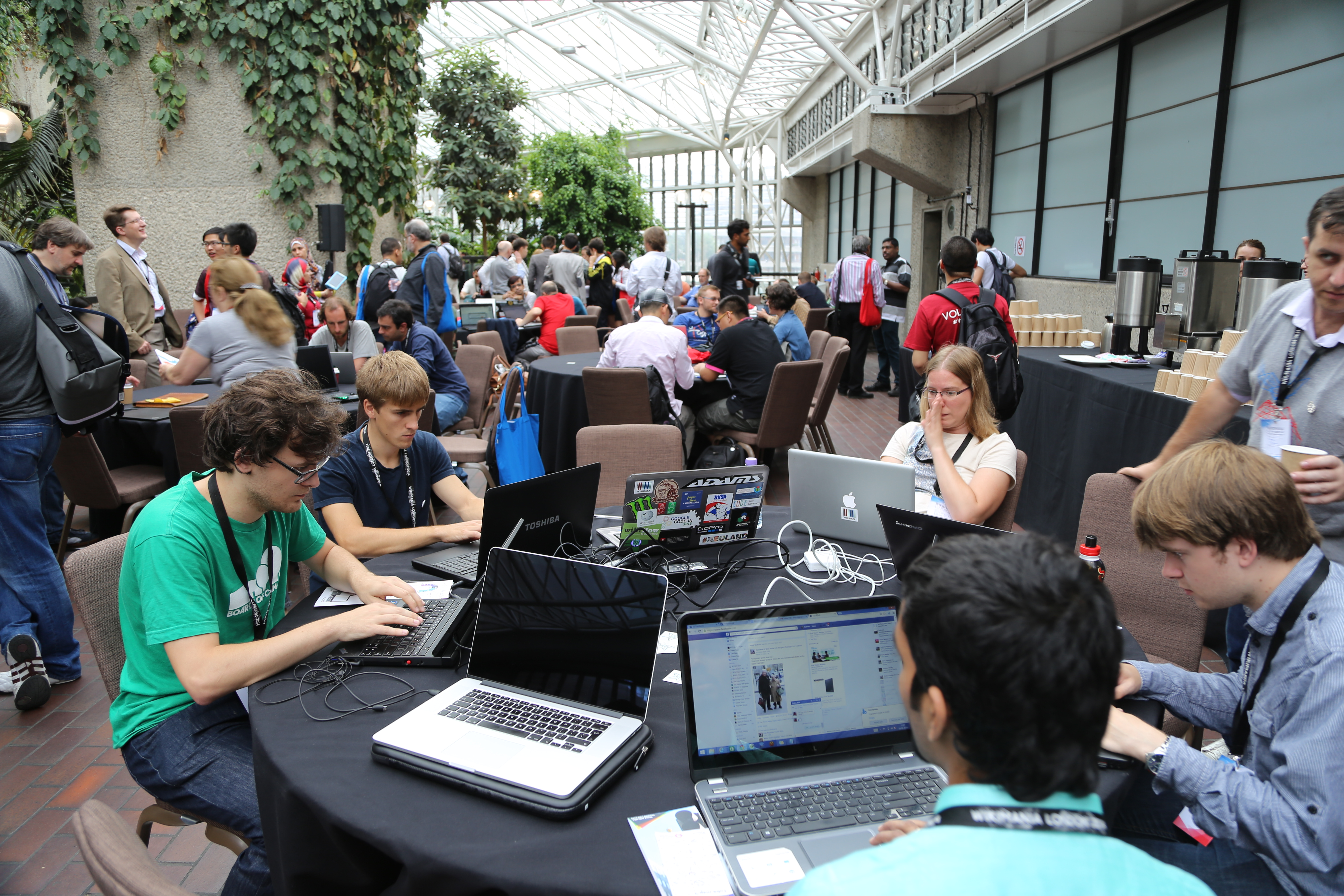 Wikimania hackathon